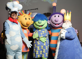 A picture of the main characters of Shushybye at their concert at the Geffen Playhouse.